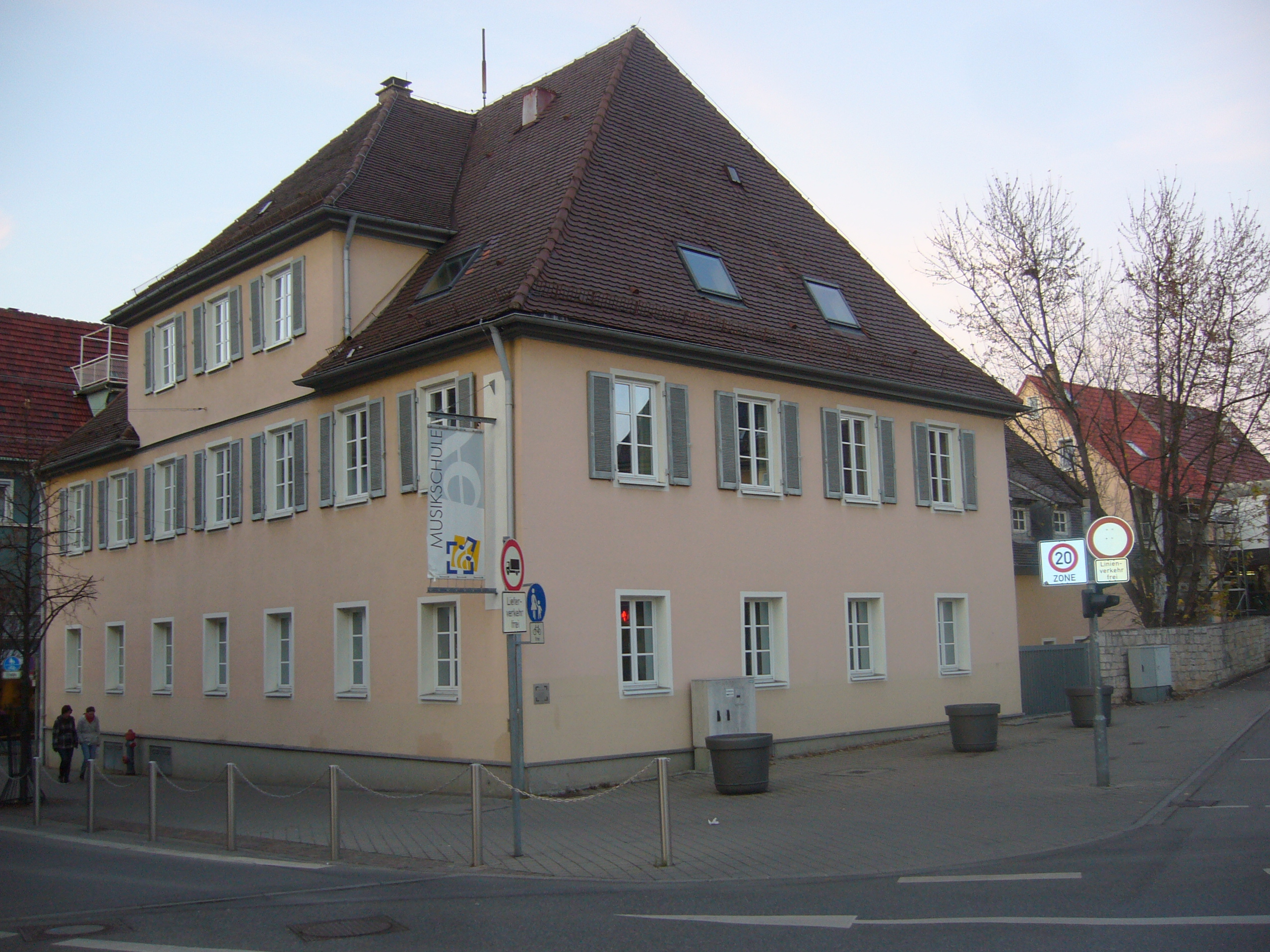 Oberamt building in Tuttlingen, Germany, today used as municipal school of music